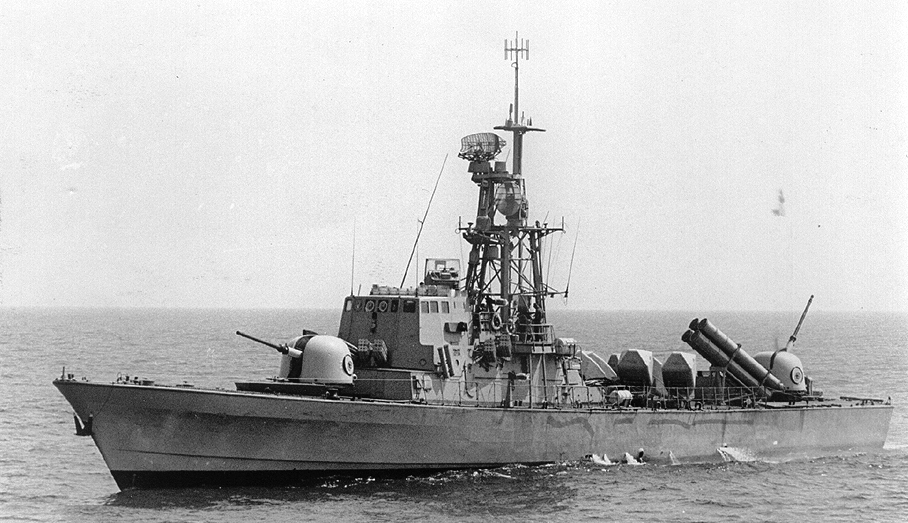 saar 4, Israel Defense Forces